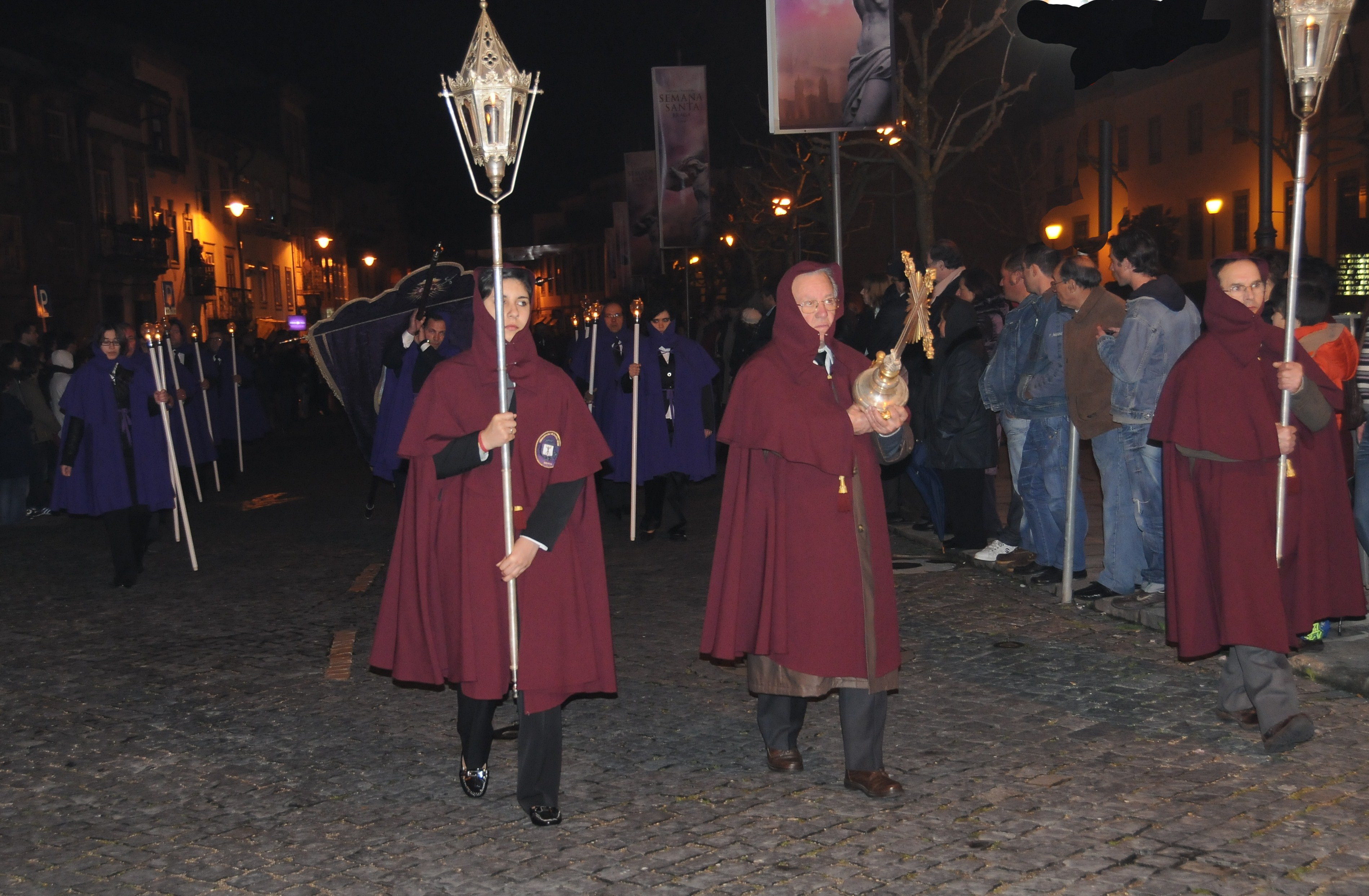 Good Friday Funeral Procession 2010, in Braga, Portugal.